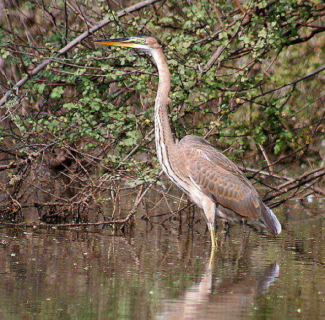 Purple Heron Ardea purpurea at Bharatpur, Rajasthan, India.